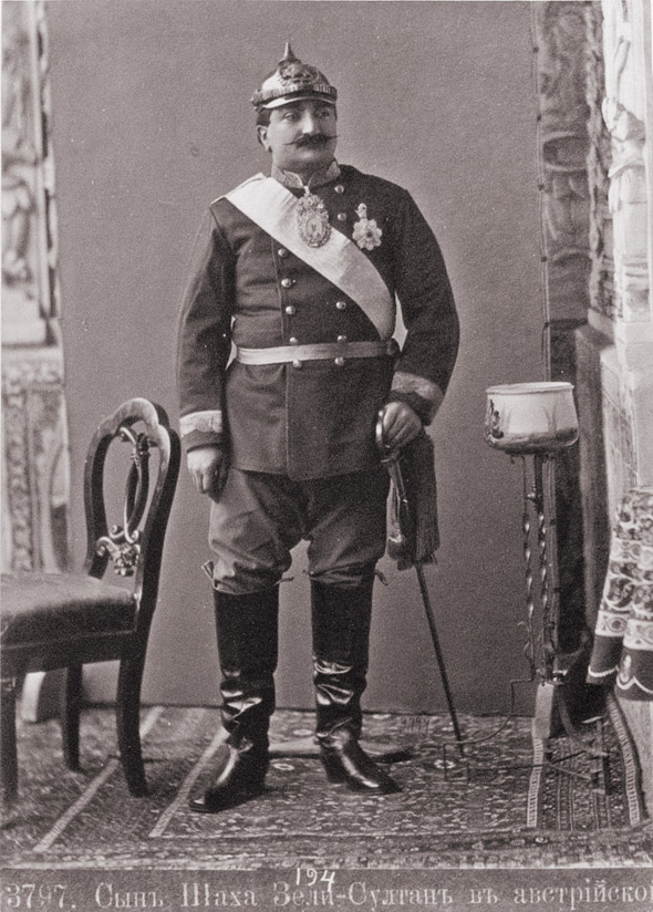 Son of Shah Zeli Sultan in the Austrian military uniform